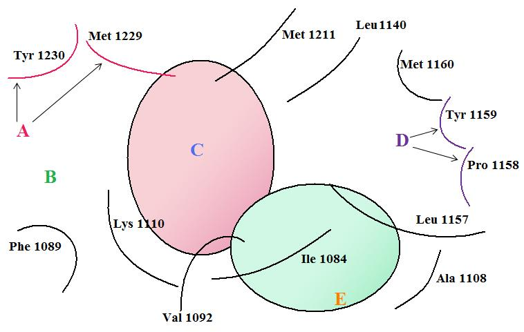 RTK domain scematic